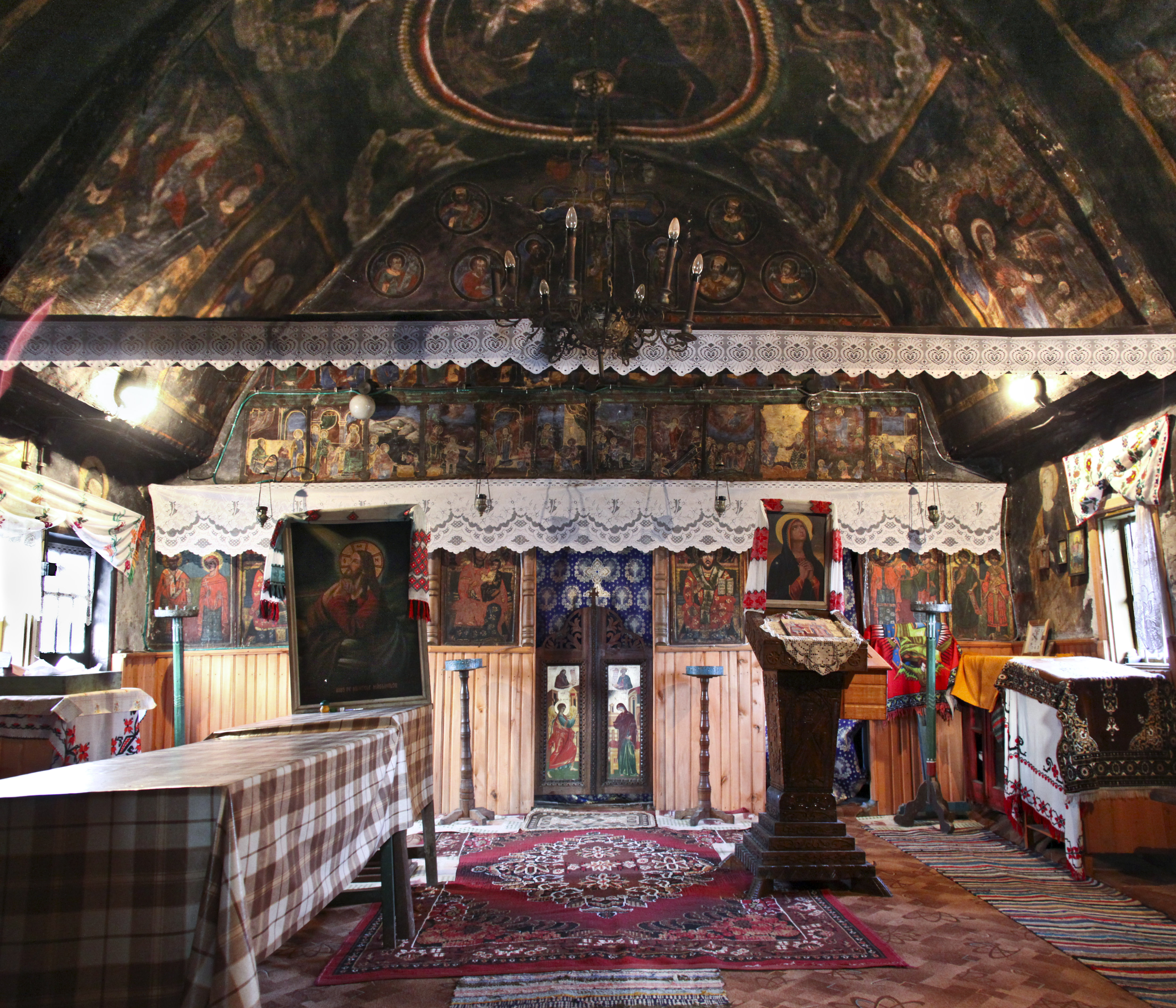 Roşioara, Vâlcea county, Romania: the wooden church.